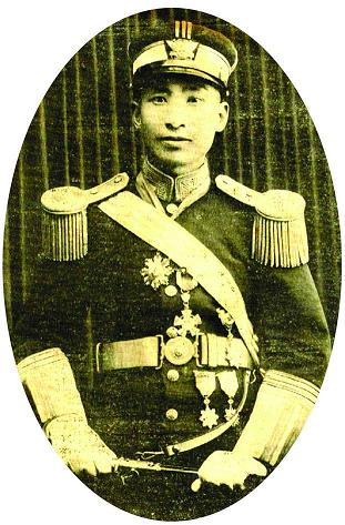 Template:Cn